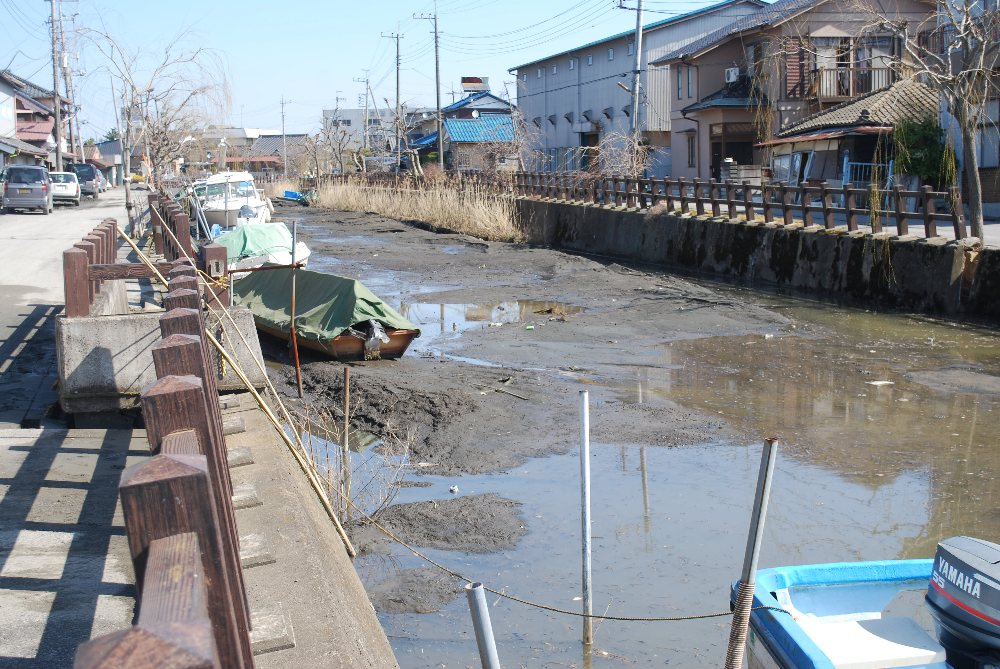 Soil liquefaction,Katori-city,Japan. The river which was buried by sand.